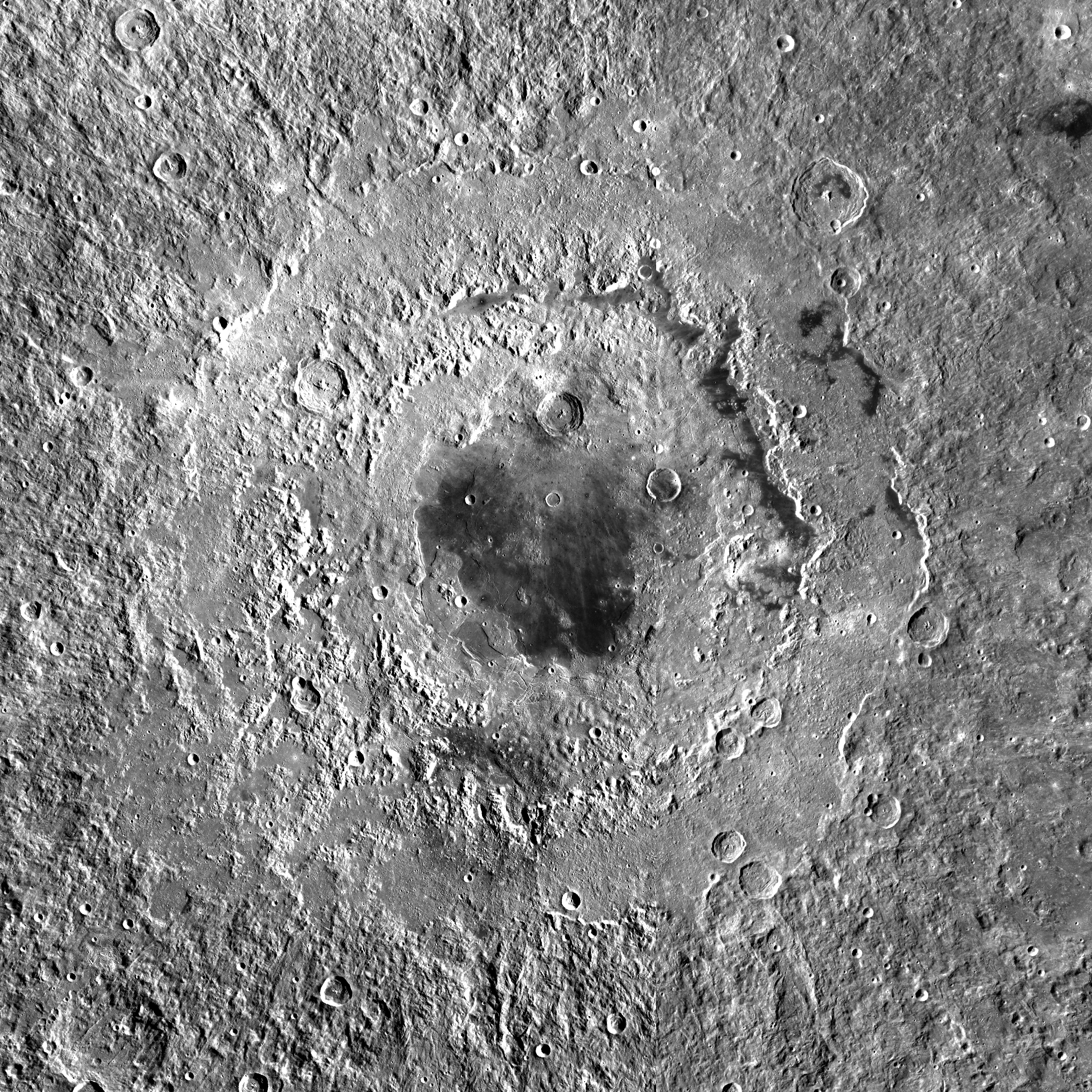 Basin of Mare Orientale on the Moon. Mosaic of photos by Lunar Reconnaissance Orbiter, made with Wide Angle Camera. Size of the image is 1300×1300 km, north is up. The image has the same span and resolution as an elevation map Mare Orientale (GLD100).jpg.